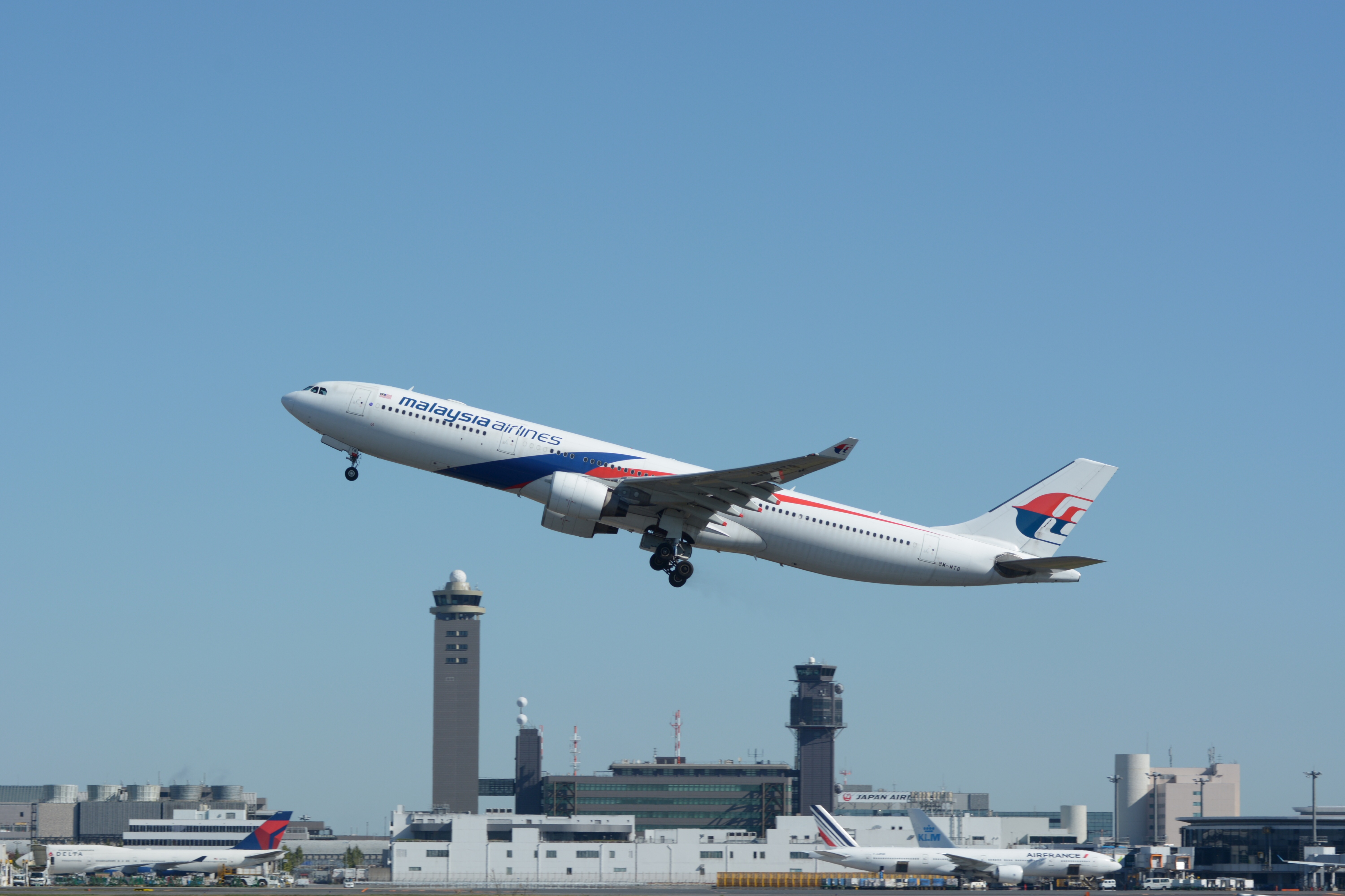 Malaysia Airlines Airbus A330-300 9M-MTB NRT